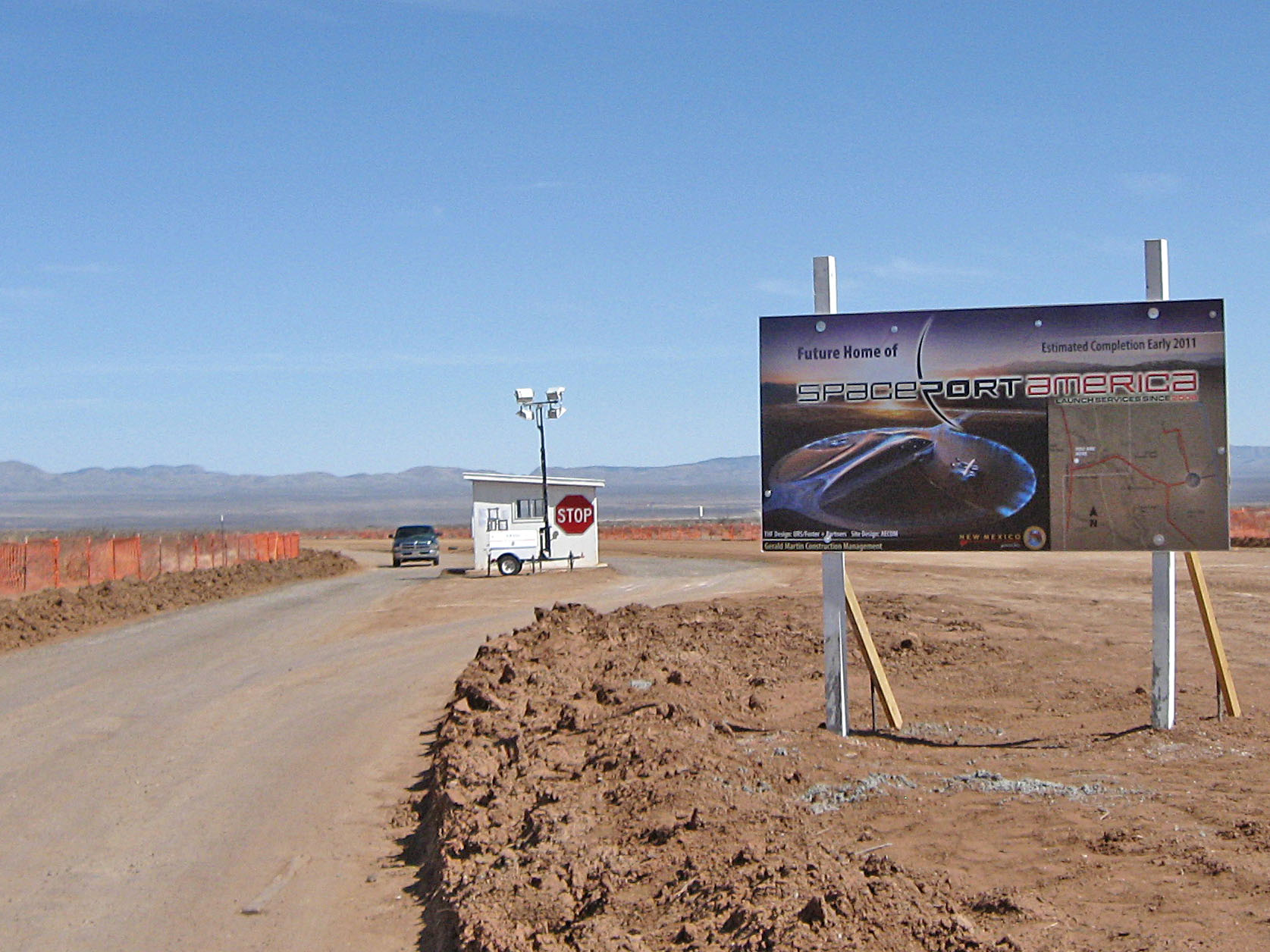 Entrance and guard shack to Spaceport America, from County Road AO-13.